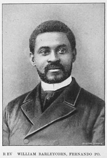 Rev. William Barleycorn, Fernando Po. From Glimpses of Africa, West and Southwest coast ; containing the author's impressions and observations during a voyage of six thousand miles from Sierra Leone to St. Paul de Loanda and return, including the Rio del Ray and Cameroons rivers, and the Congo River, from its mouth to Matadi (published 1895).